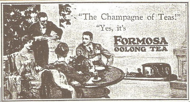 Commercial of Formosa Oolong Tea.